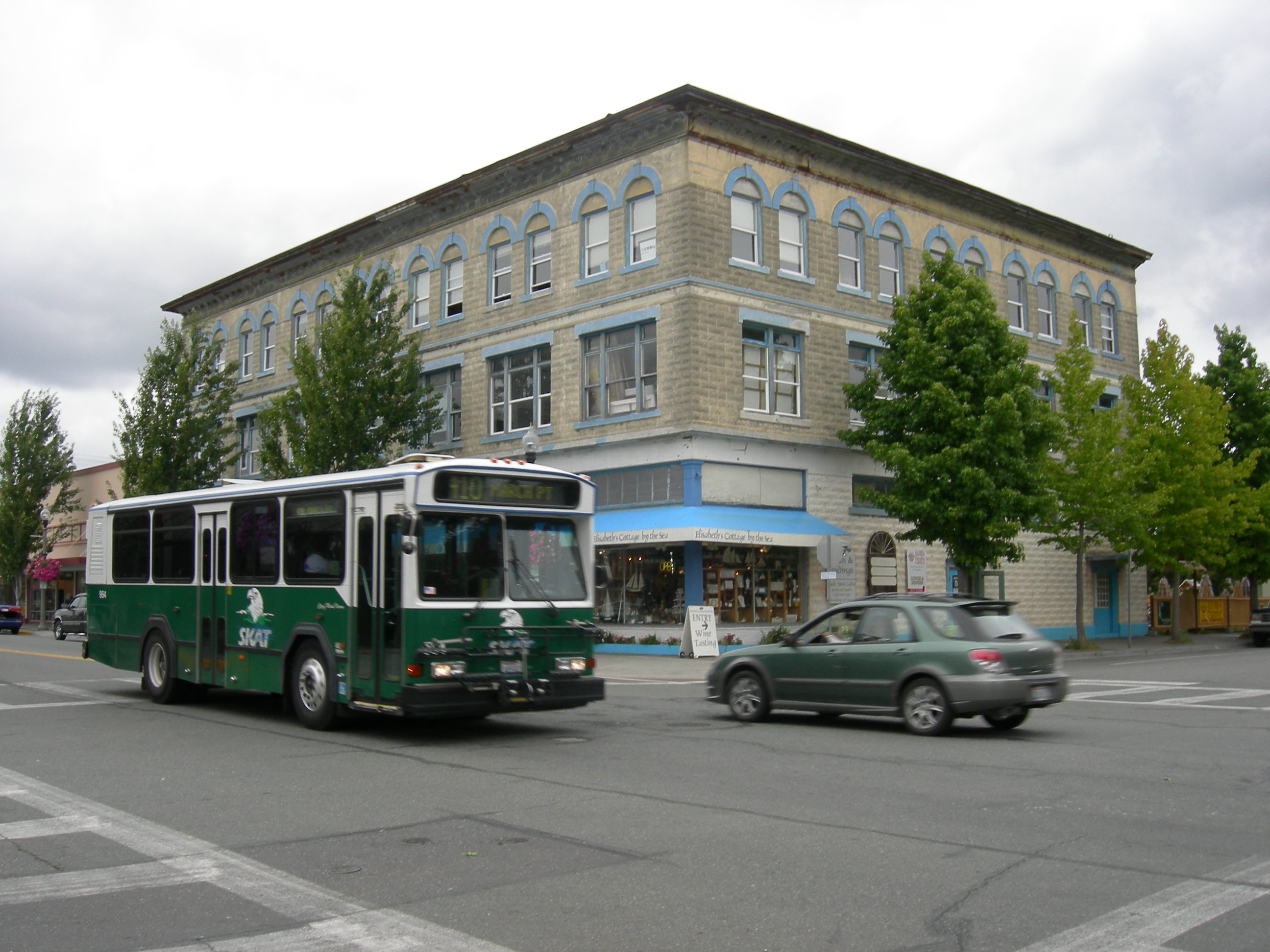 Skagit Transit (SKAT) bus, downtown Anacortes, Washington. This bus is a 30-foot Gillig Phantom.